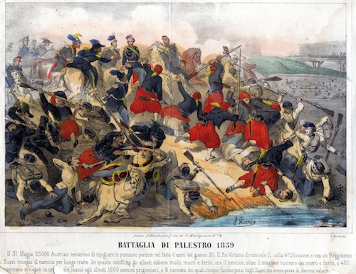 Battle of Palestro (1859)